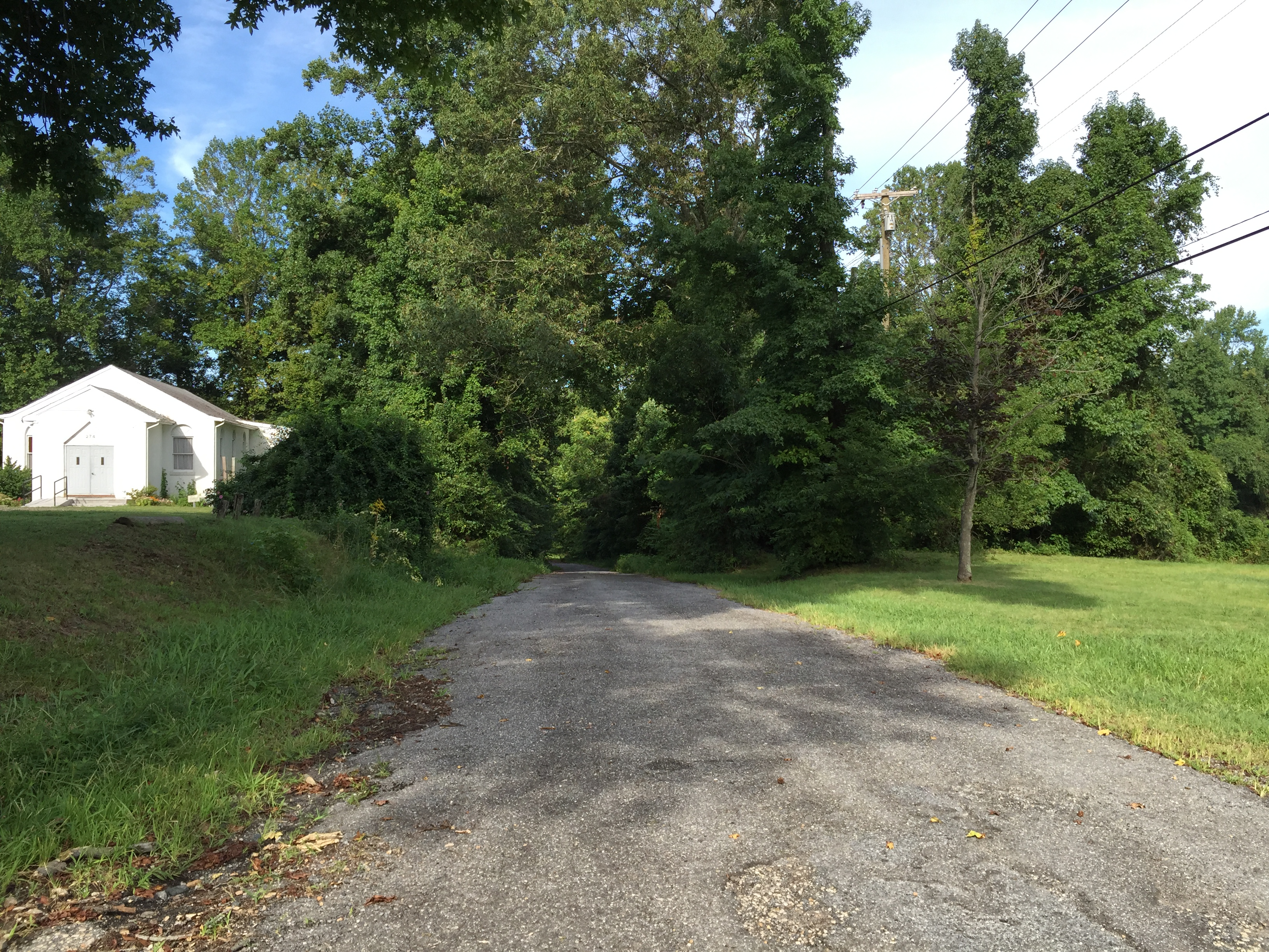 View west along Maryland State Route 796 (McKendree Road) at Maryland State Route 258 (Bay Front Road) in McKendree, Anne Arundel County, Maryland